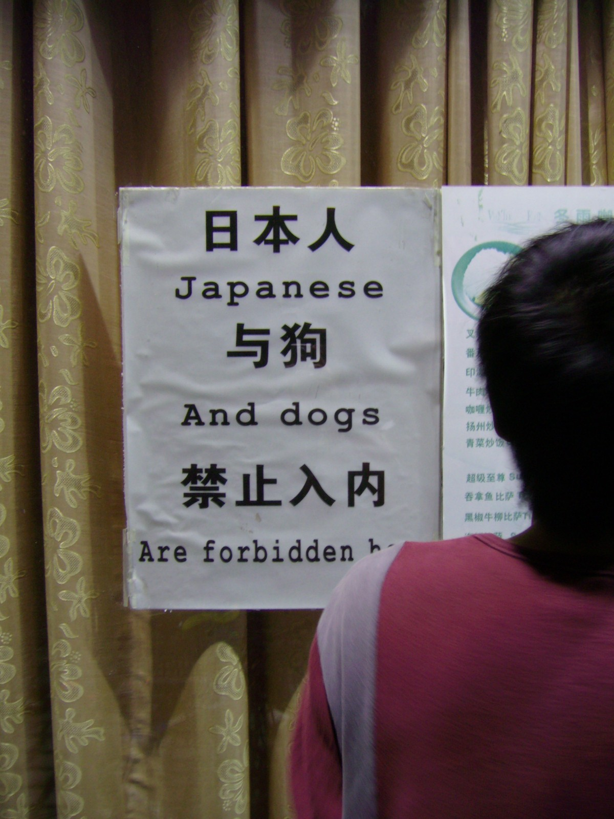 Anti-Japanese statement "Japanese and dogs are forbidden here" from a restaurant in Higher Education Mega Center, Panyu District, Guangzhou City.